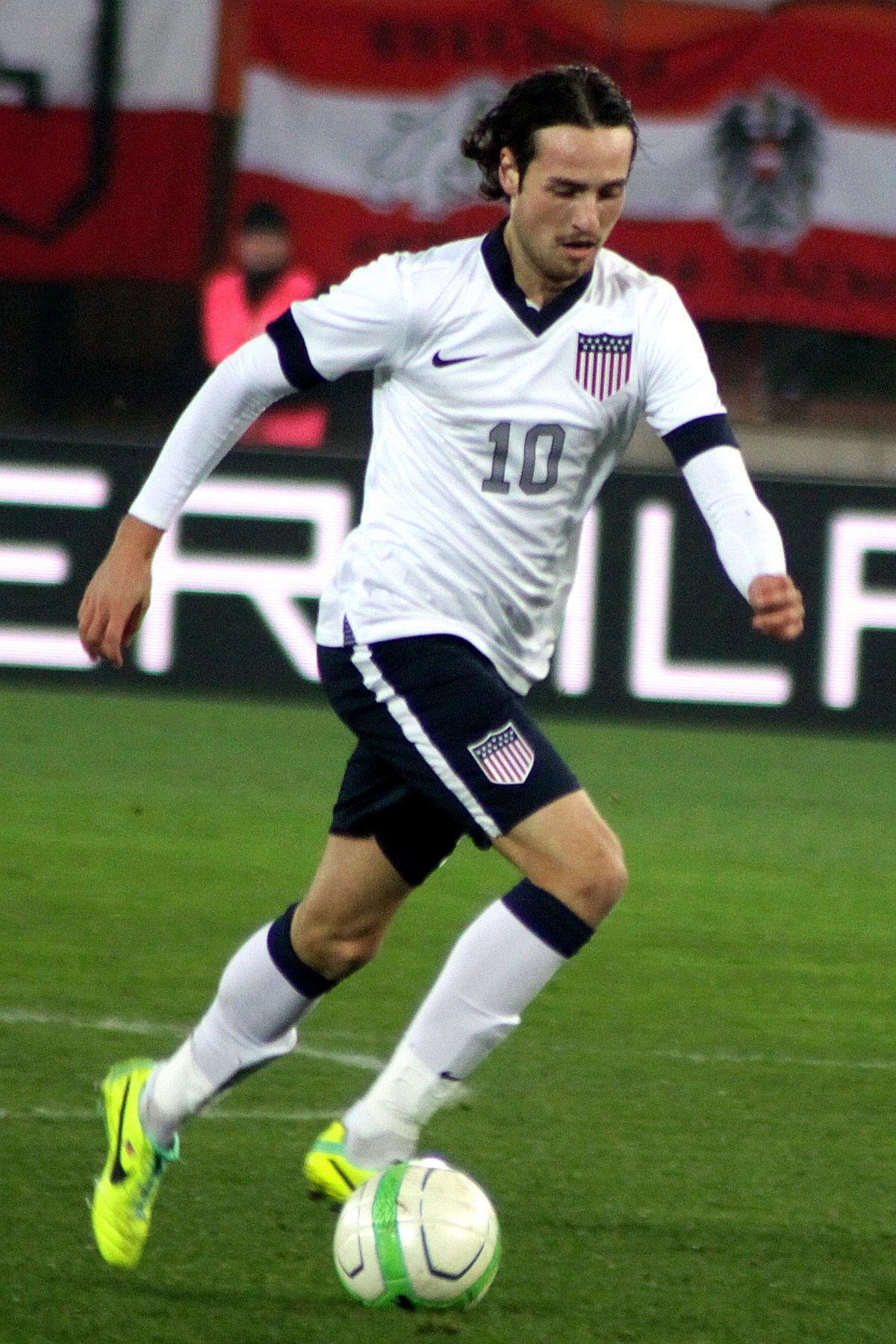 Friendly-match Austria vs. USA (1:0) in the Ernst-Happel-Stadion in Vienna at 2013-03-22. – The photo shows .